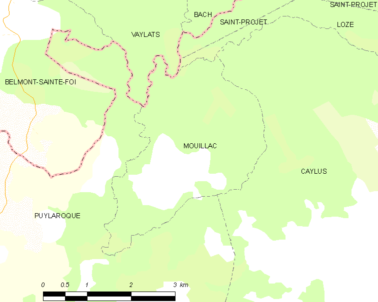 Map of French municipality Mouillac